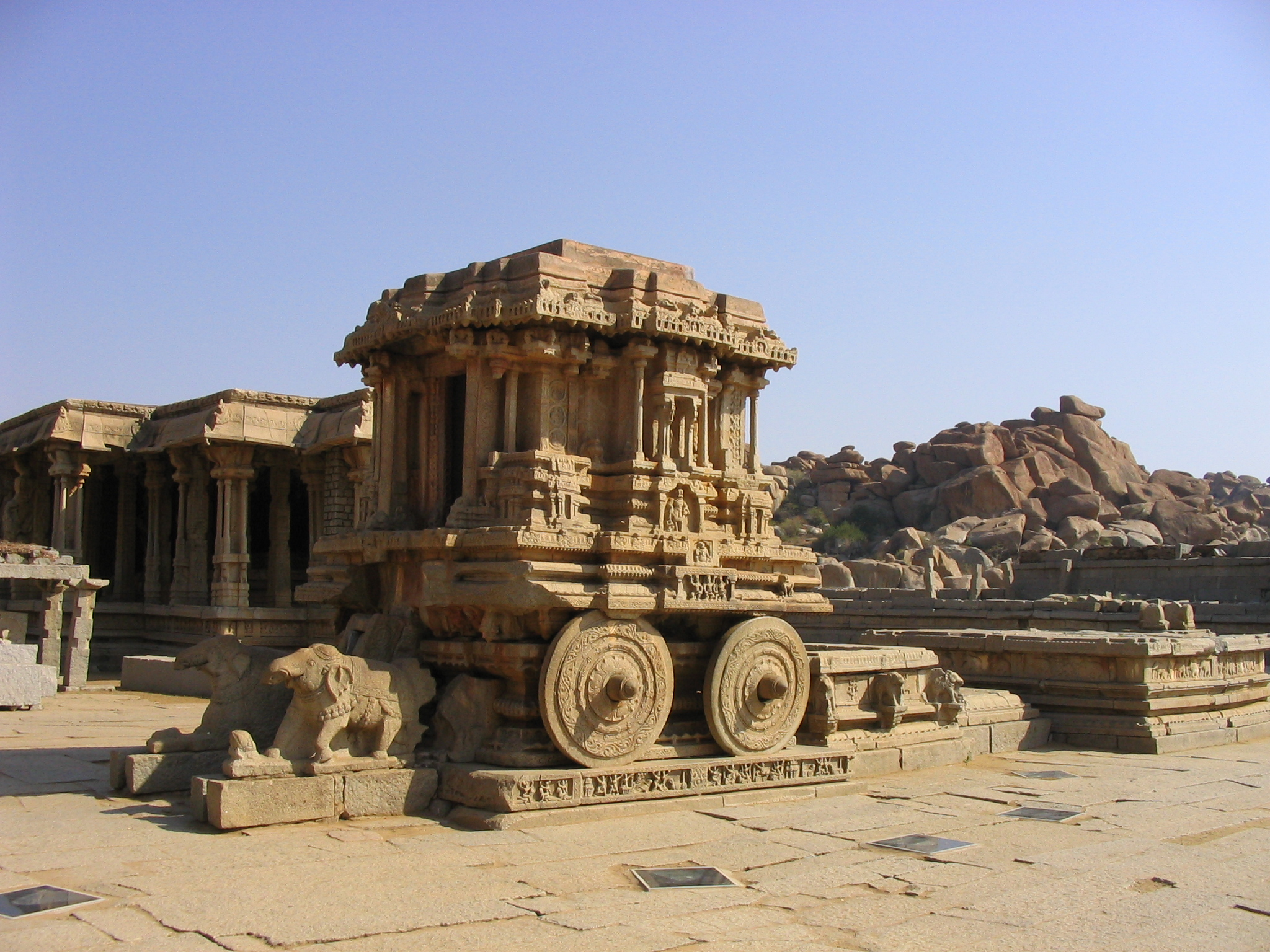 Vittala-Temple, Hampi, Vijananagar (Karnataka, India)